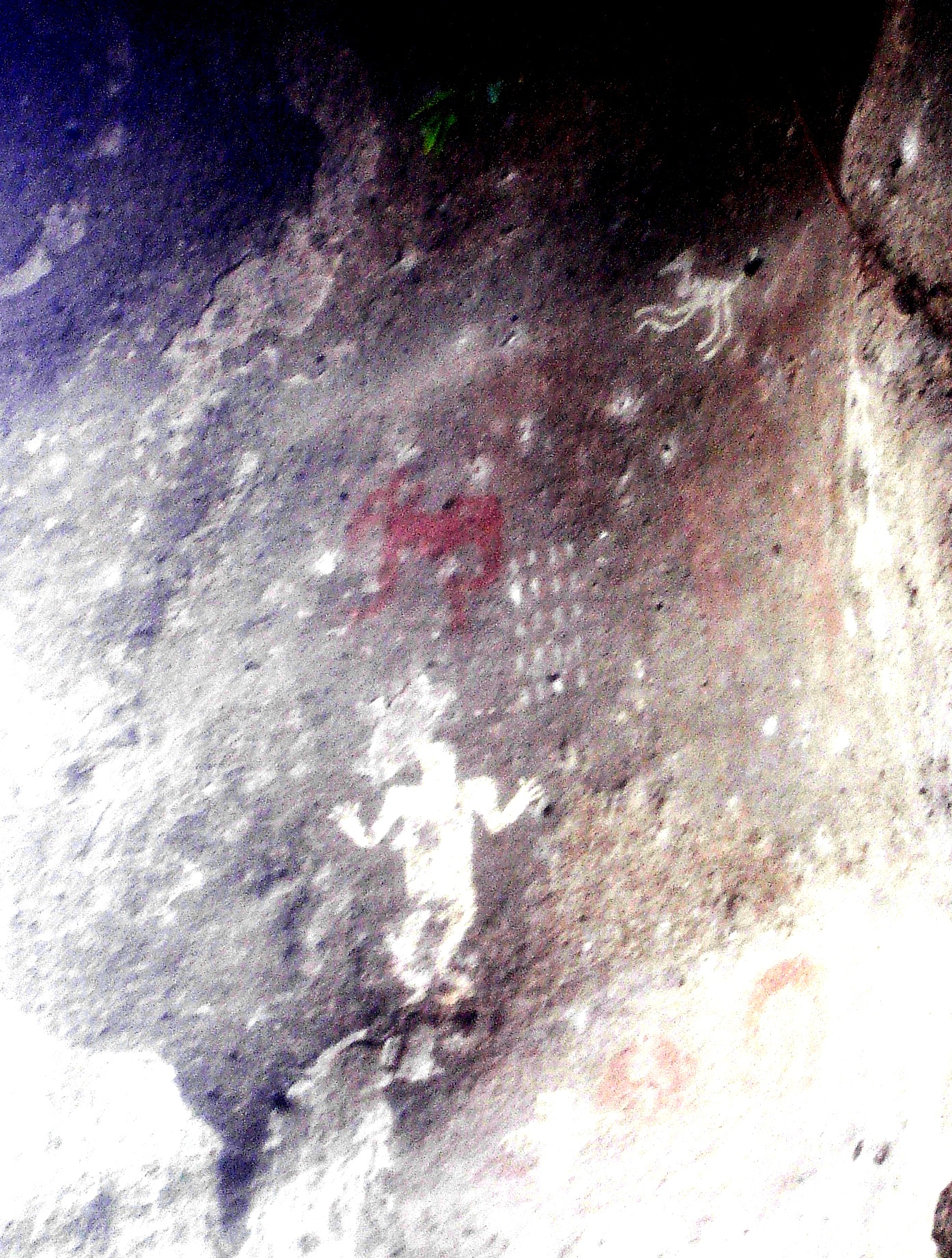 Man, animals and math. (Santa Elena mountain, Honduras)